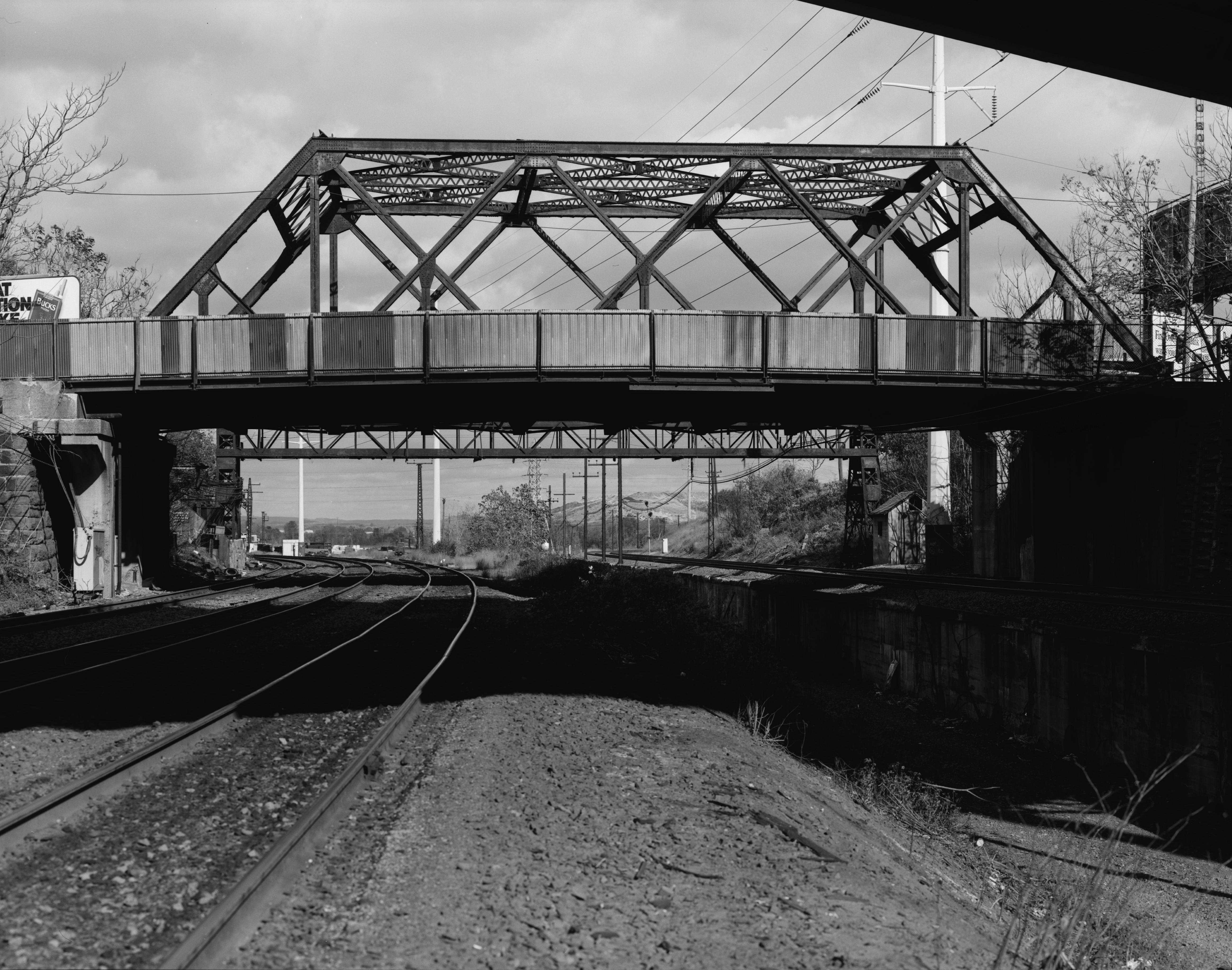 Ferry Street Railroad Bridge, Ferry Street over New Haven Railroad, New Haven, New Haven, CT